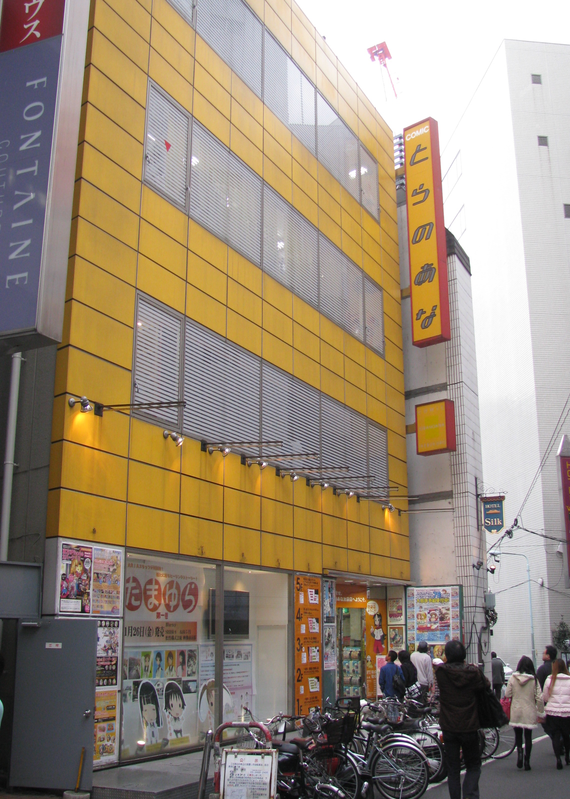 Comic Toranoana Ikebukuro Store. 1-13-4 Higashi-ikebukuro, Toshima, Tokyo.